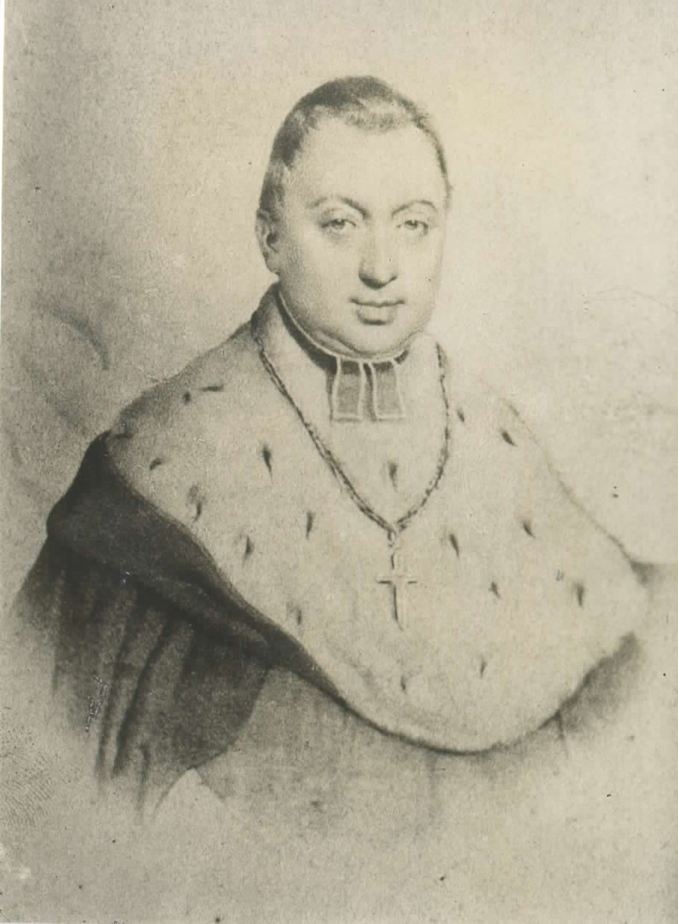 Anton Alojzij Wolf (1782-1859), slovene bishop.